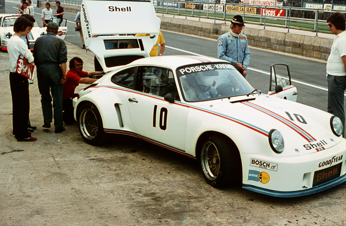 Porsche Kremer Racing Drivers: Wollek / Heyer 1976 The World Championship For Manufacturers 6 Hours Silverstone. Hans Heyer is shown with blue race suit and his famous Tyrolean hat .